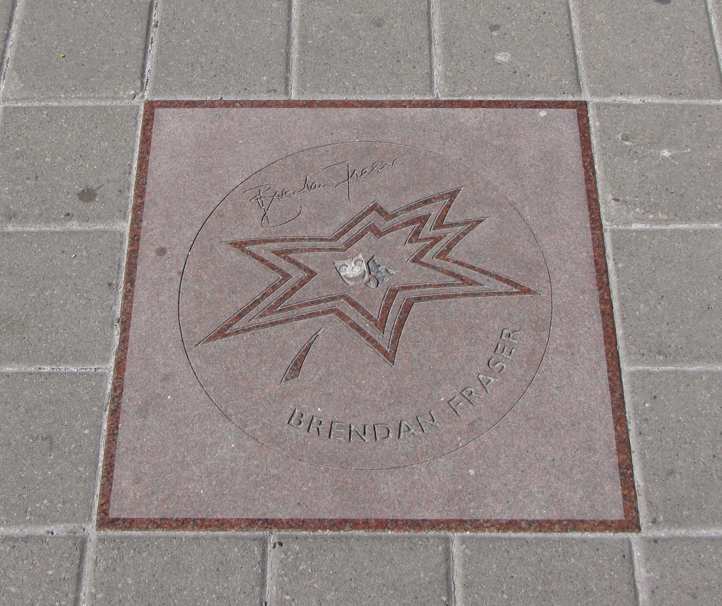 Brendan Fraser's star on Canada's Walk of Fame